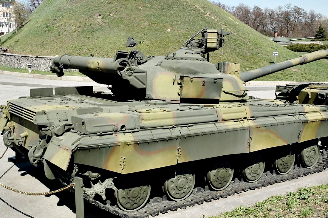 T-64 Soviet main battle tank